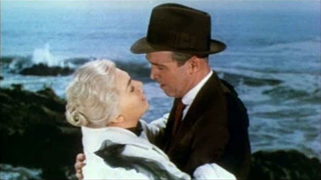 Screenshot from the original 1958 theatrical trailer for the film VertigoFrame taken from MPEG4. Note: This version of the original 1958 theatrical trailer is of significantly lower quality than the 1996 restoration theatrical trailer.